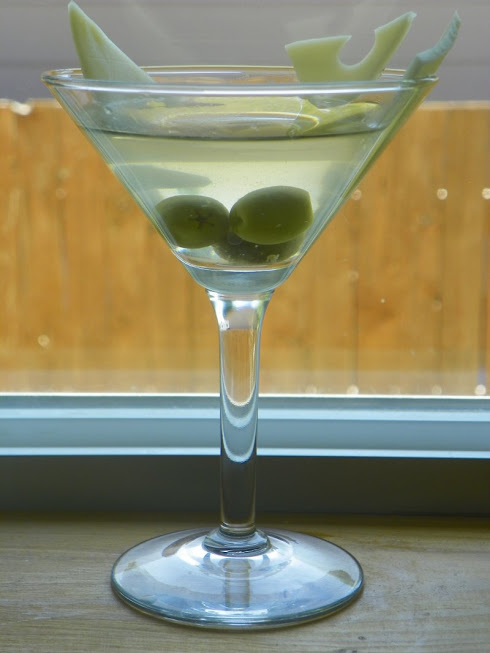 A vodka martini I created garnished with olives and swiss.